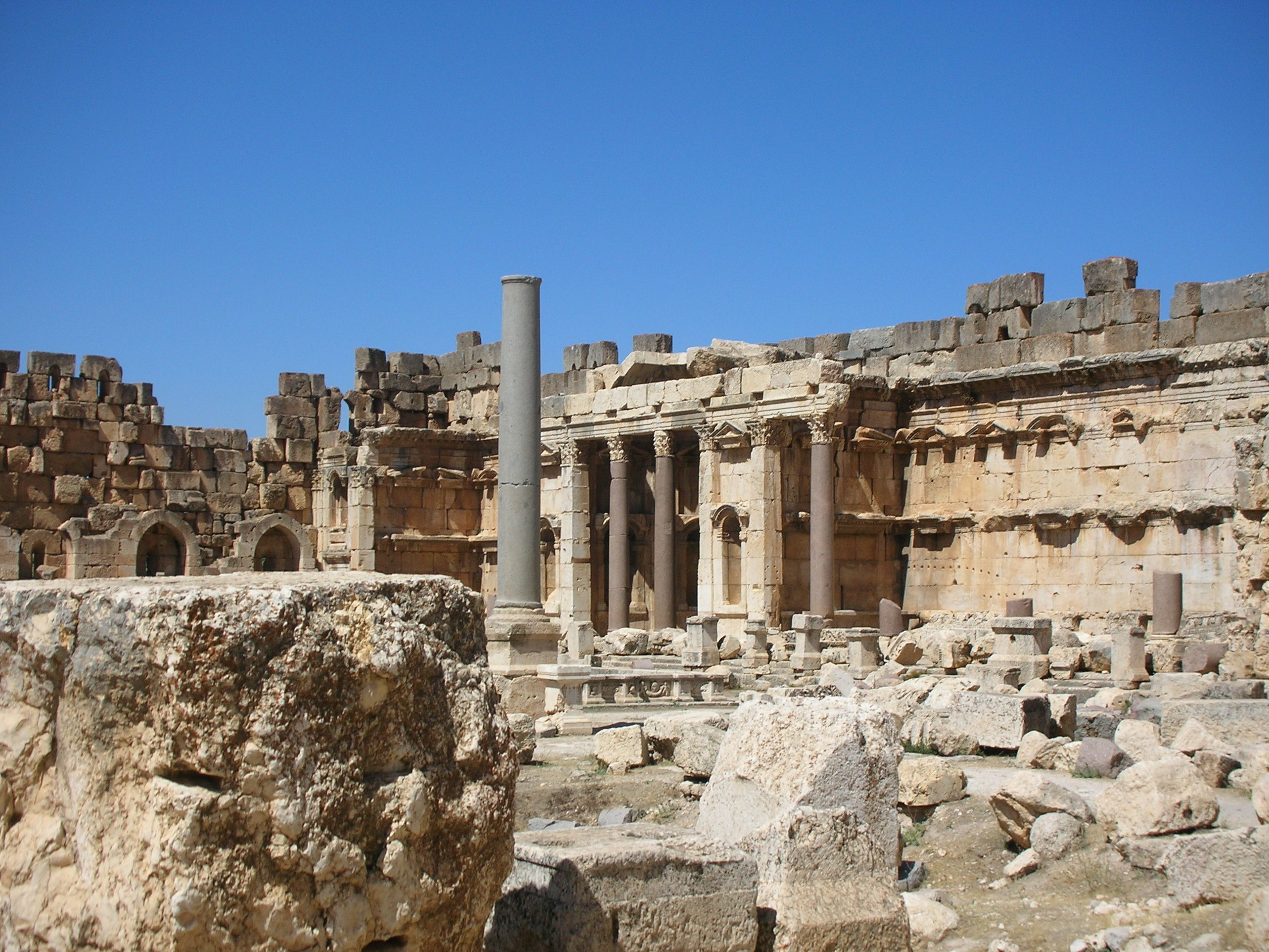 Baalbek (Lebanon)